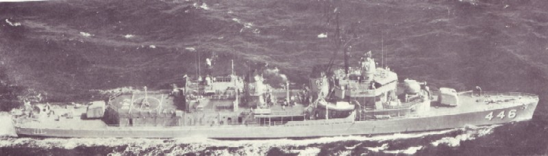 The U.S. Navy Fletcher-class destroyer USS Radford (DD-446) underway, following her FRAM I refit.